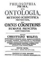 Christian Wolff "Philosophia Prima Sive Ontologia" (1730) book first page